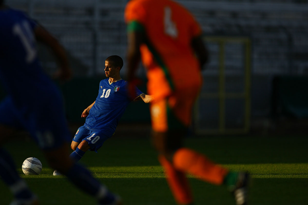 MAY 21, 2008 - Football : Sebastian Giovinco of Italy in action during the 36th Festival International 'Espoirs' of Toulon match between U23 Italy and U23 Cote d'Ivoire at Stade Mayol on May 21, 2008 in Toulon, France. (Photo by Tsutomu Takasu)